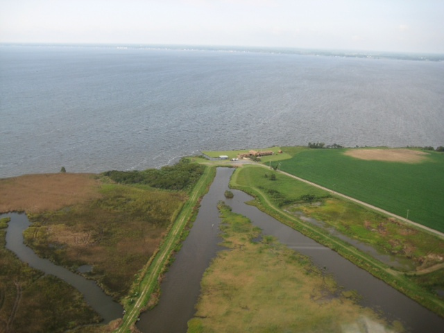 Photo by Cindy Dohner, U.S. Fish & Wildlife Service.